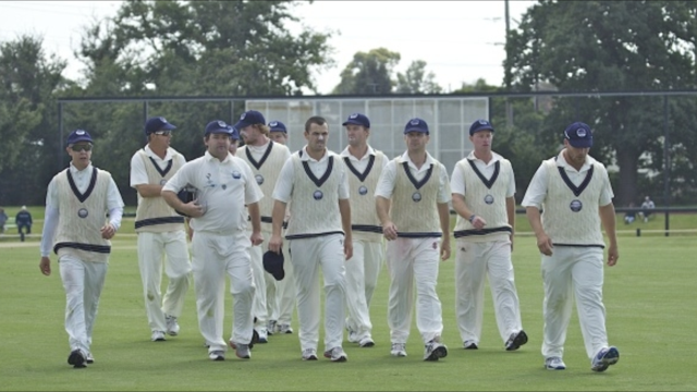 The Geelong Cricket Club walks off the Geelong Cricket Ground in 2009